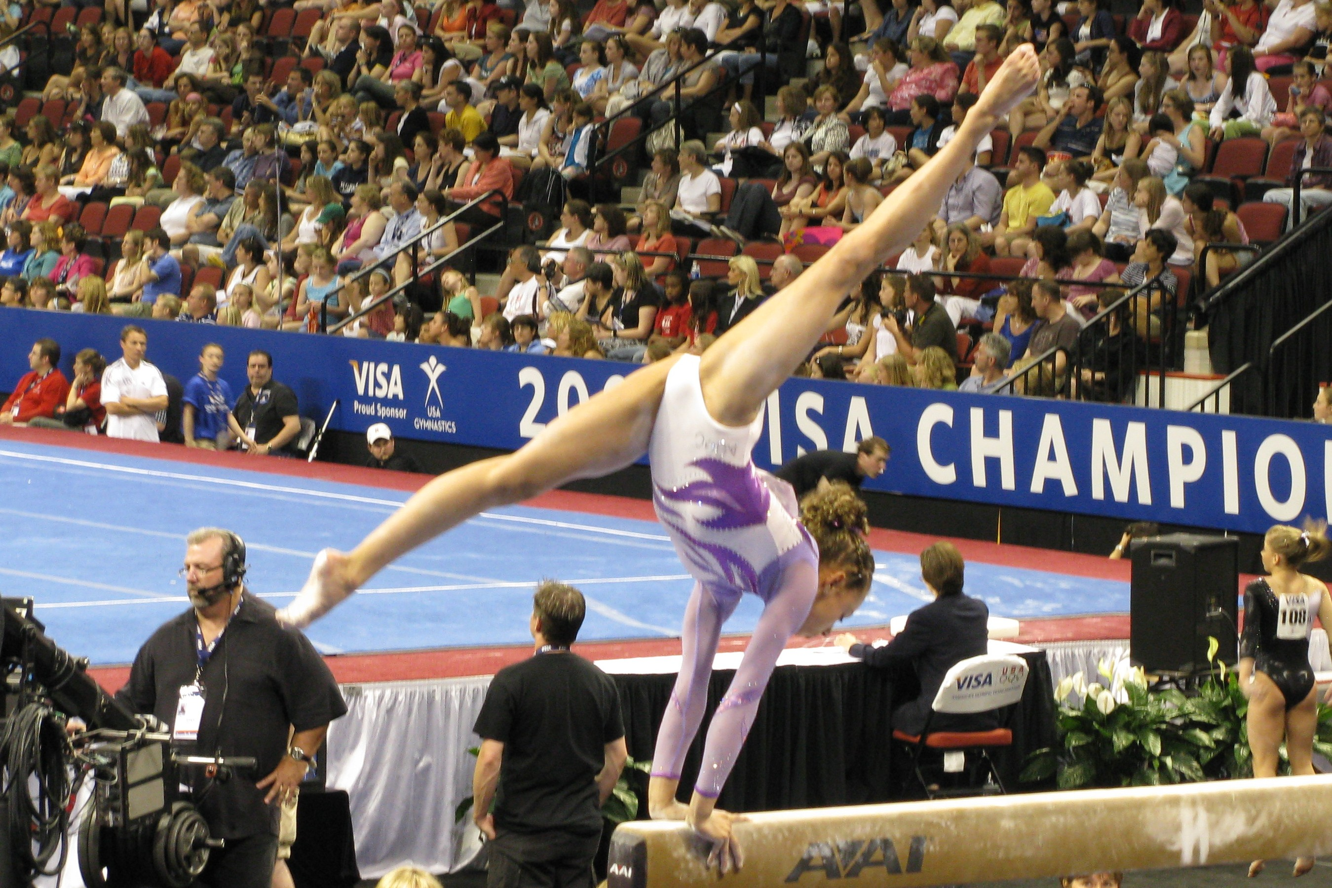 Mattie Larson on the balance beam at the 2008 U.S. Gymnastics Championships in Boston, MA